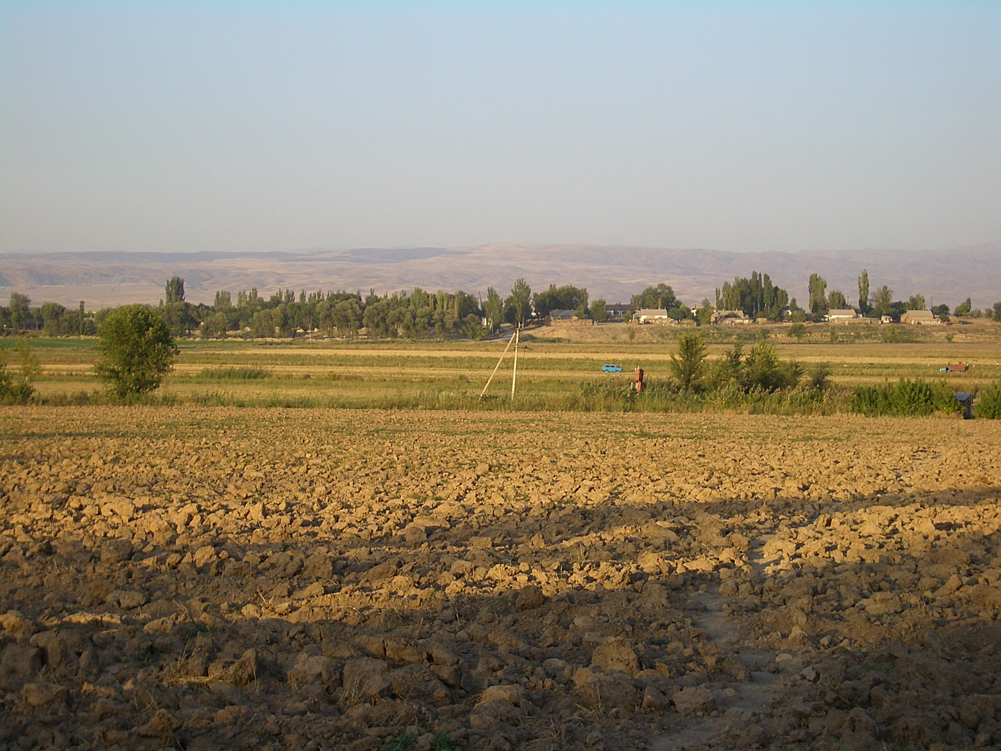 Ploughed fields north of the village of Pervomayskoe, in Ysyk Ata District of Chuy Province. (Between Kant and Milyanfan).